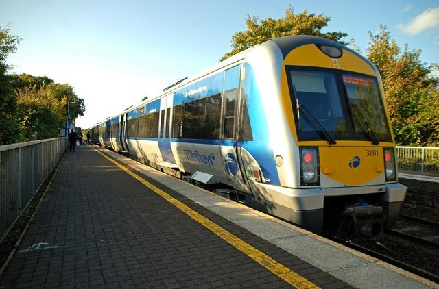 See 895715. The 17.00 Bangor – Portadown calling at Helen’s Bay.